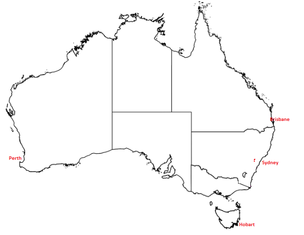 Map of Epacris browniae native growing area